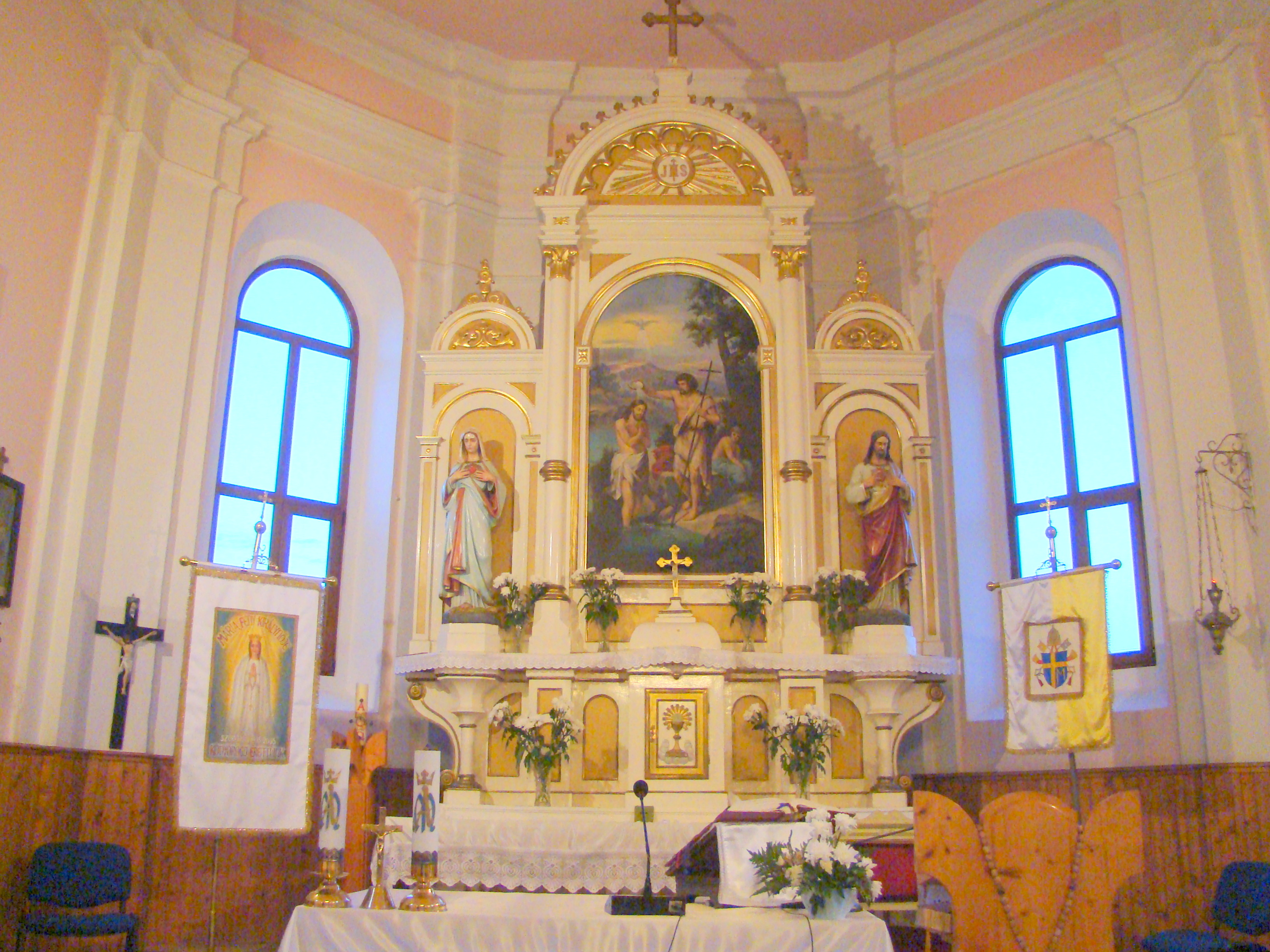 Roman Catholic church in Seuca, Mureş county, Romania